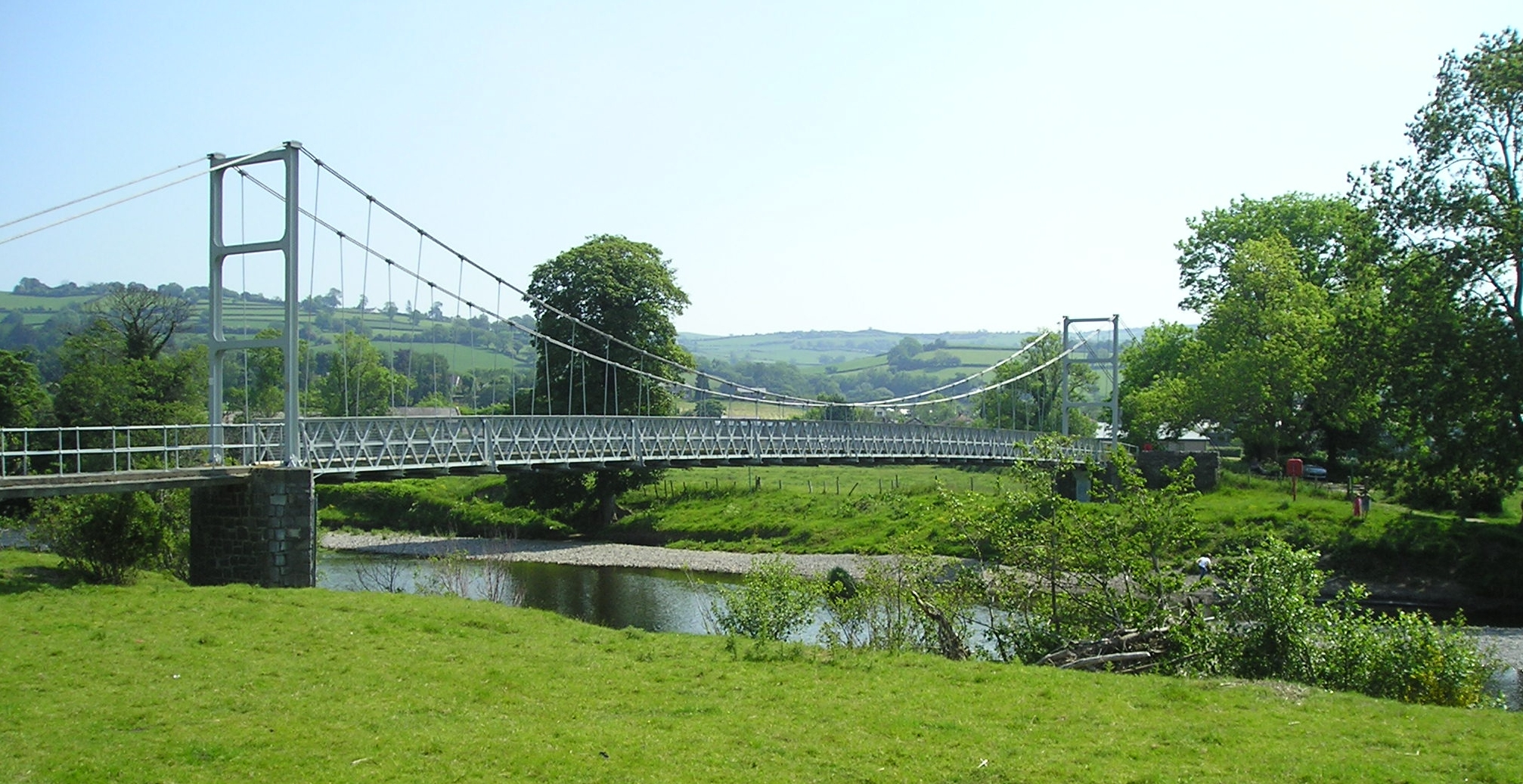 made by me Noel Walley